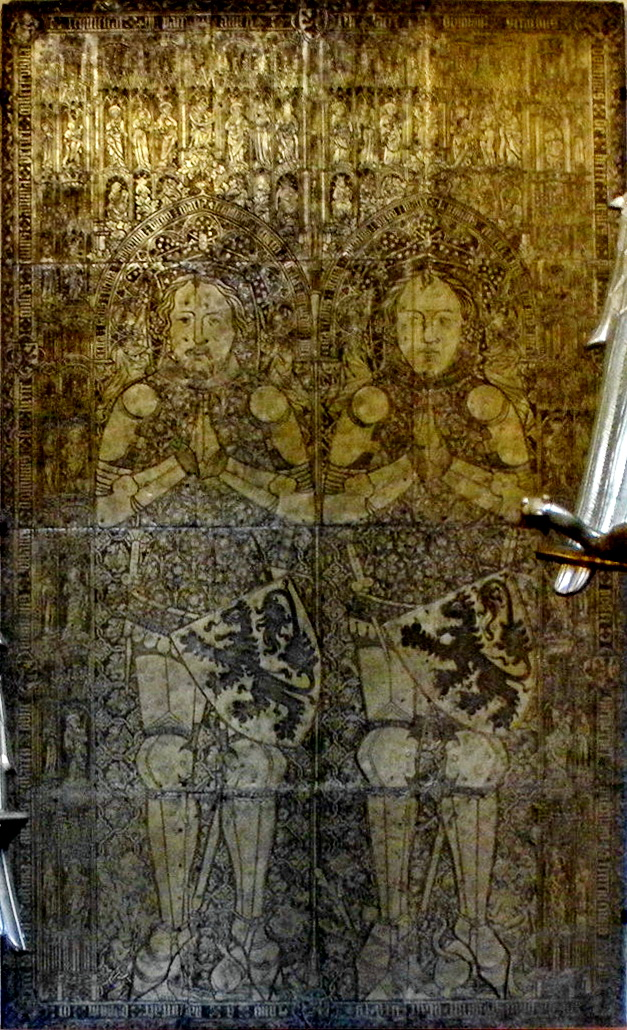 Brass graveplate depicting John († 1332) and Gerard of Heers († 1398). The engraved plates were probably assembled after 1398. They were removed from the parish church of Heers (Belgium, province of Limburg) around 1840 and were acquired by the Royal Museums of Art and History in Brussels in 1861.